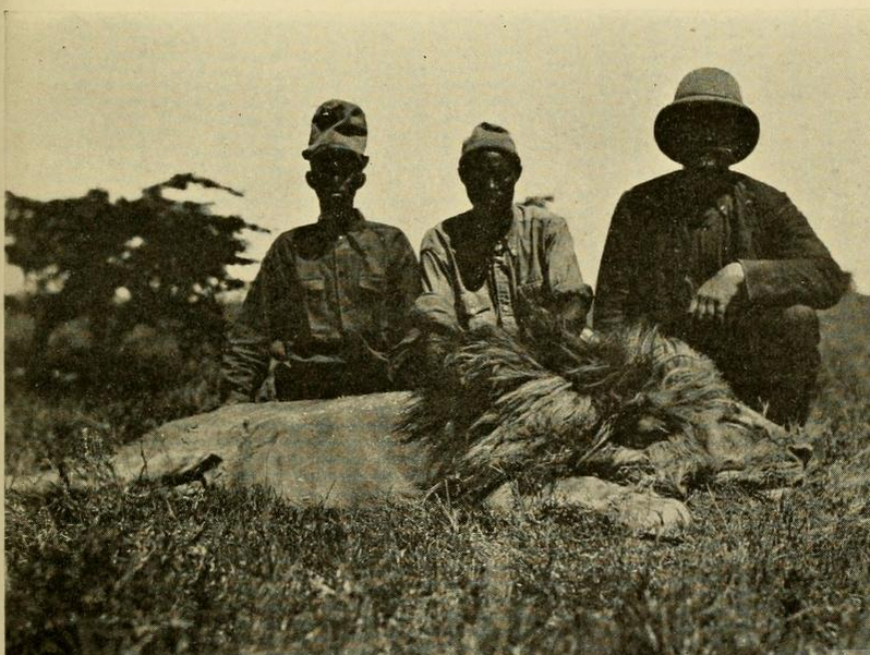 Black-maned lion, shot in the Sotik Plains of Kenya, May 1909.